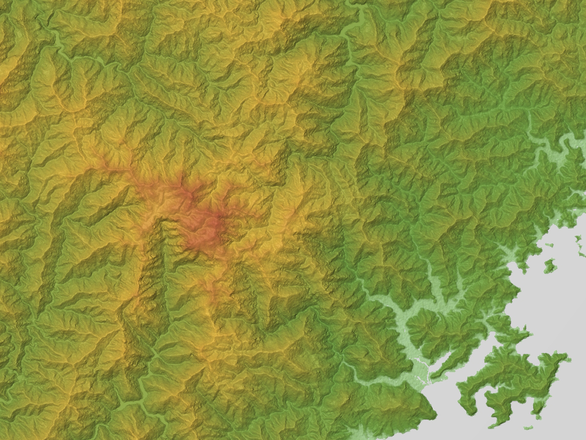 Aeound Mount Odaigahara in the border between Nara and Mie Prefectures, Honshu, Japan.